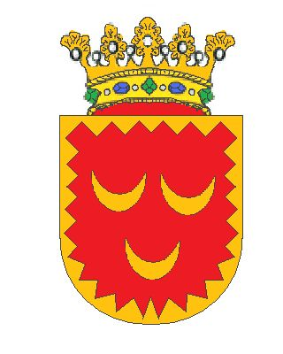 Arms of Crescenzi, An Italian noble family